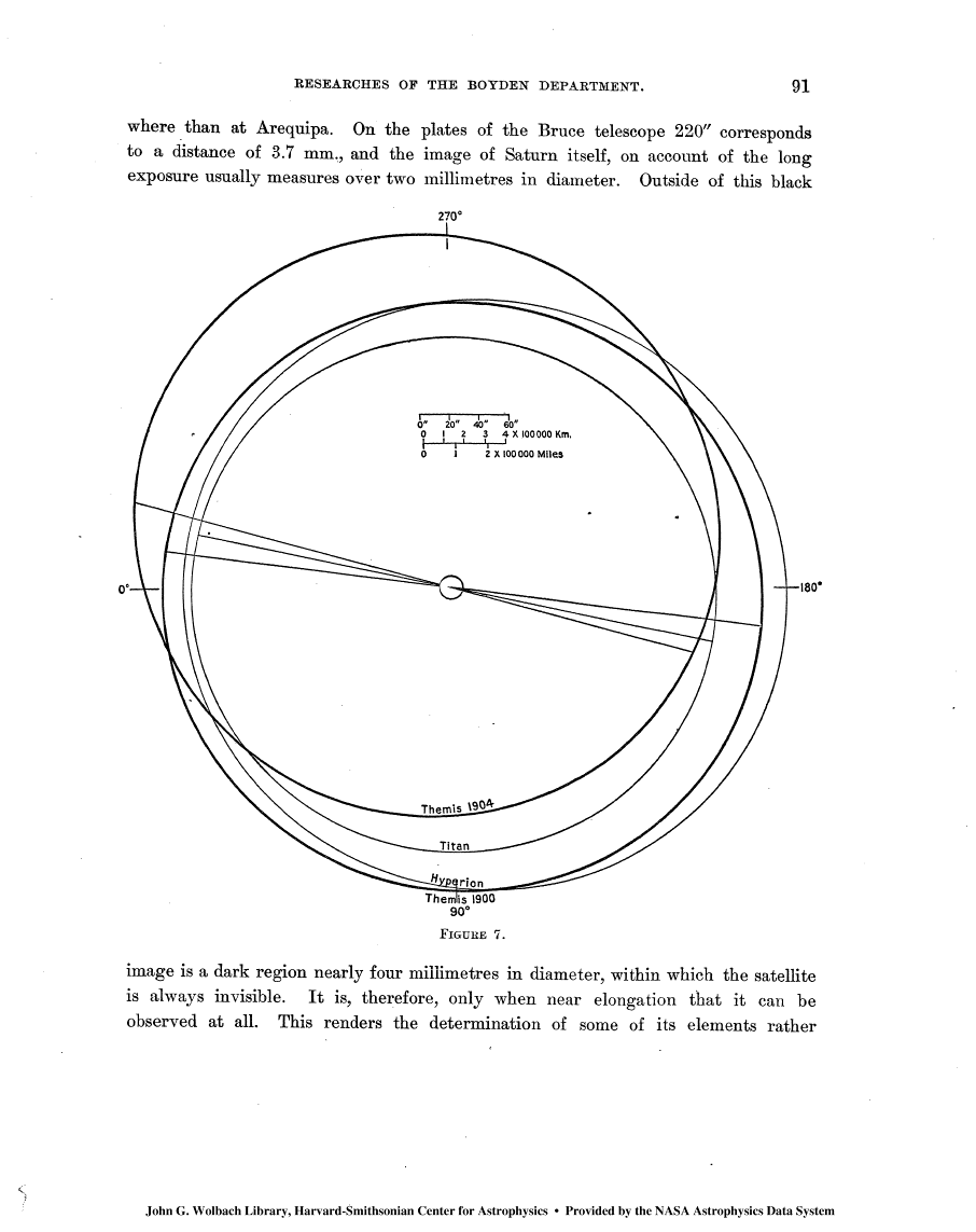 Two possible orbits for the non-existent "tenth satellite" Themis of Saturn, as calculated by William Henry Pickering